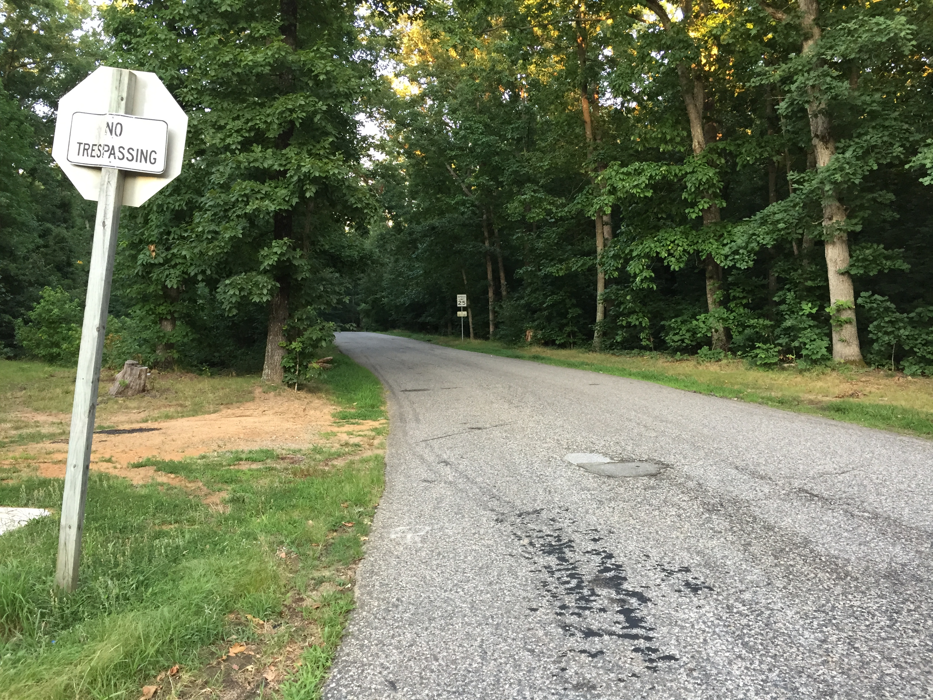 View east along Virginia State Route 324 (Chatsworth Avenue) at Old Bon Air Road (Virginia State Secondary Route 718) in Bon Air, Chesterfield County, Virginia